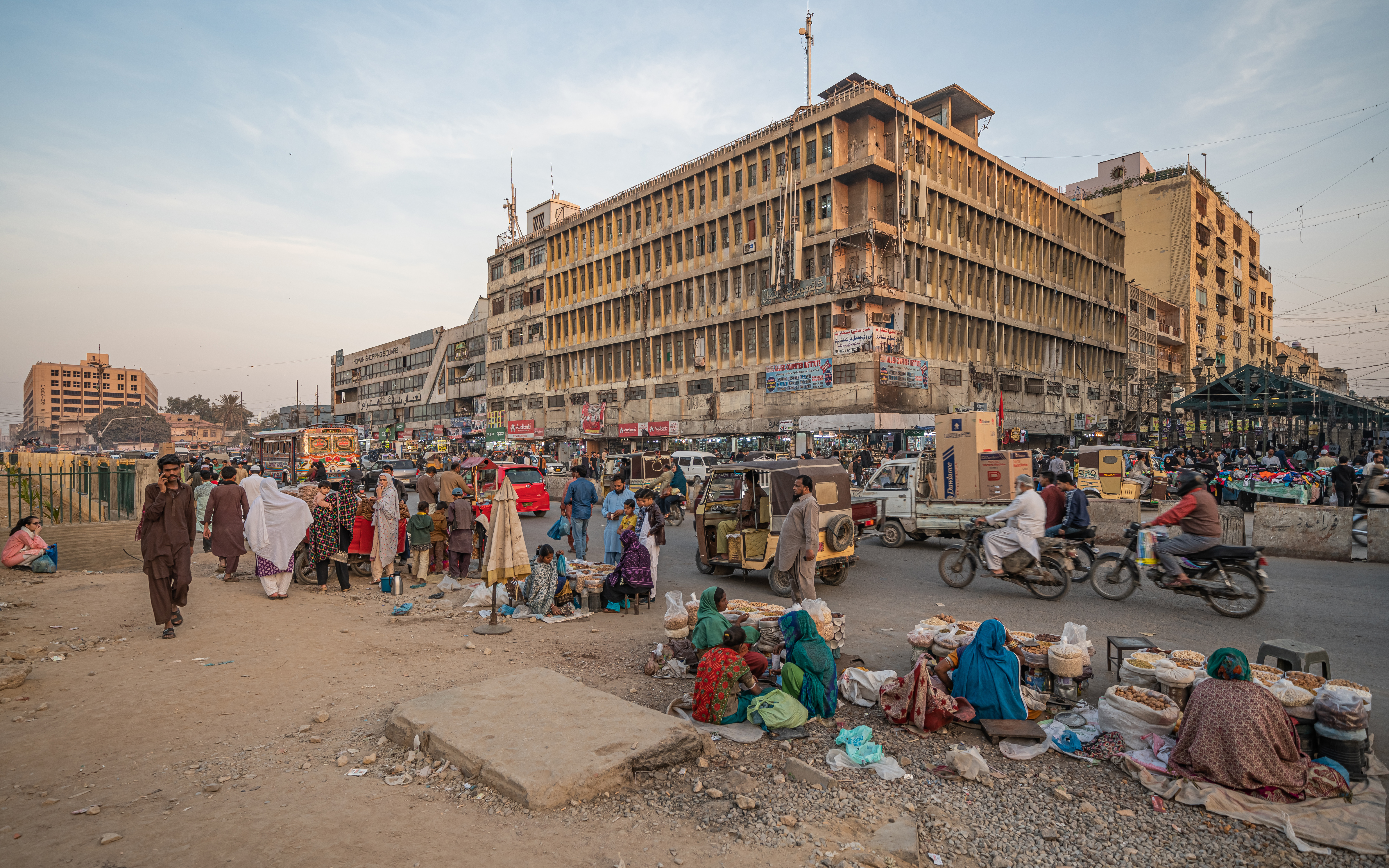 Street scene next to the Empress Market in Karachi, Pakistan